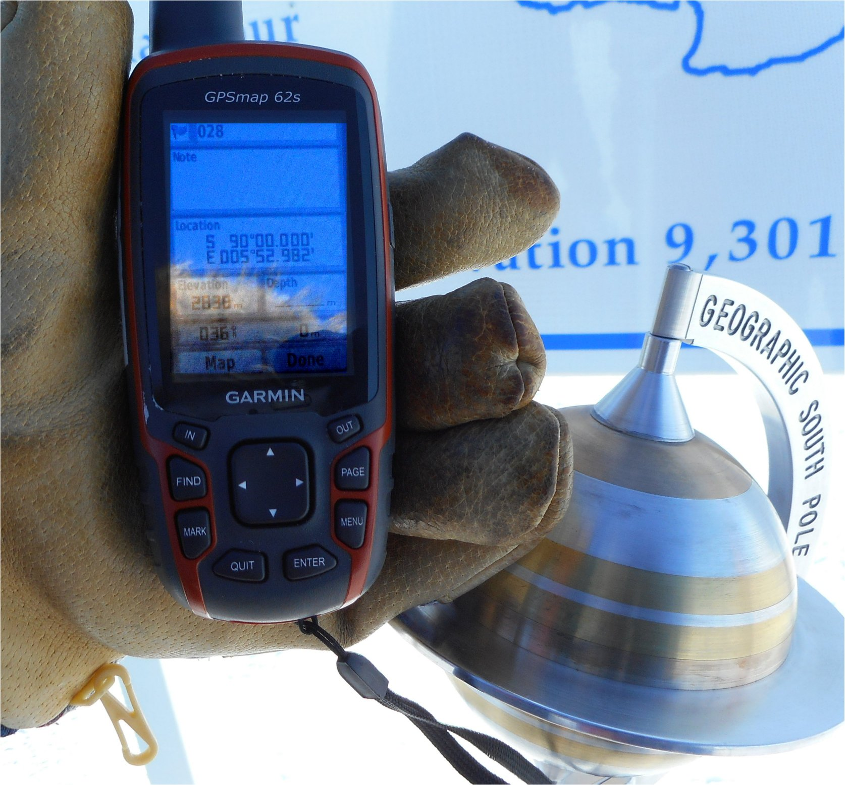 Germin reading of exactly 90 degrees south at geographic south pole